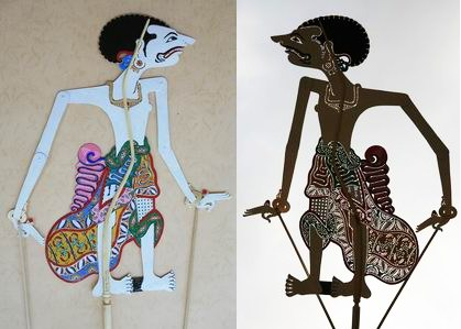 Patih Bestak, wayang kulit figure from the epos Serat Menak Sasak.